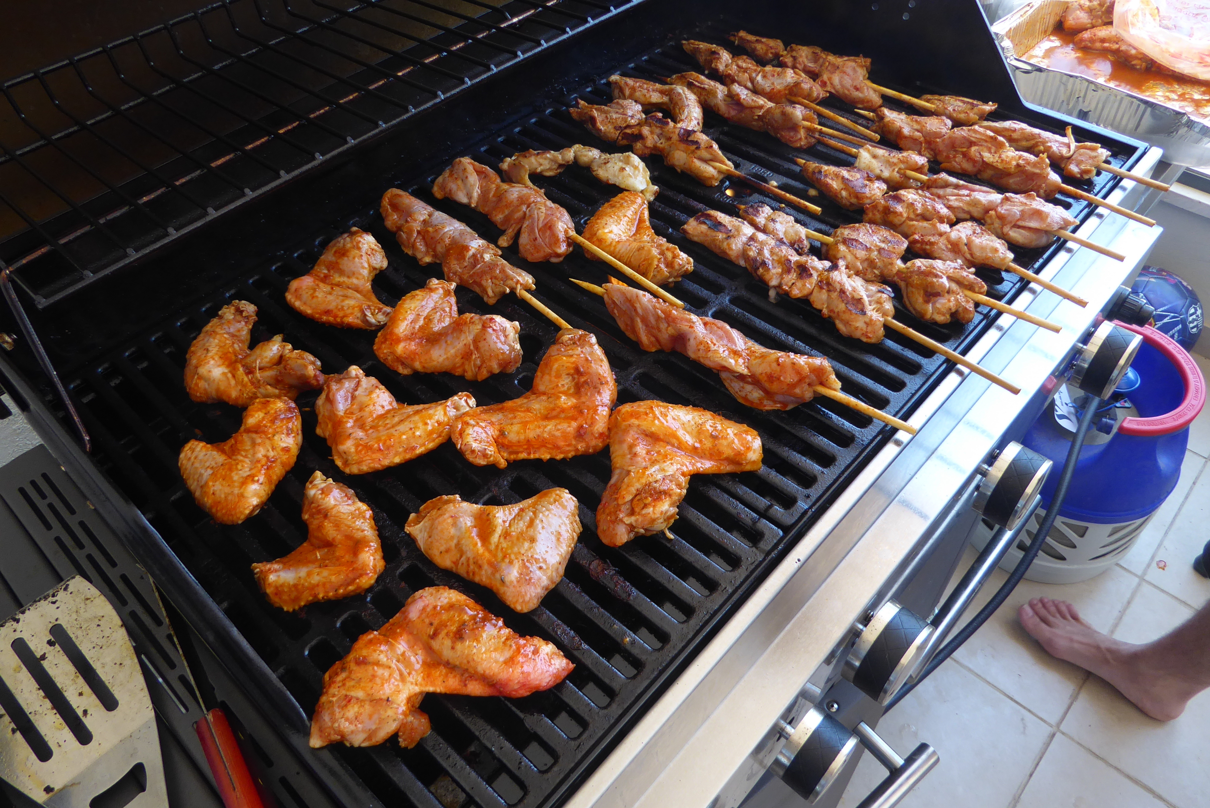 Barbecue in Israel